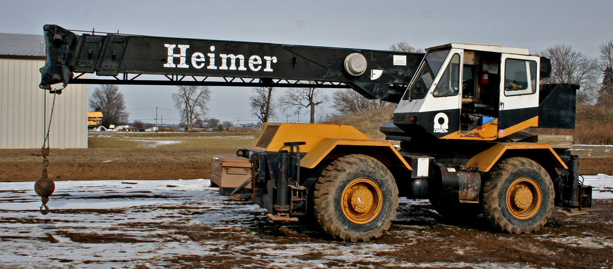 P & H model Omega 18 serial number 48940, an 18 ton rough terrain crane owned and operated by Heimer Construction Company.